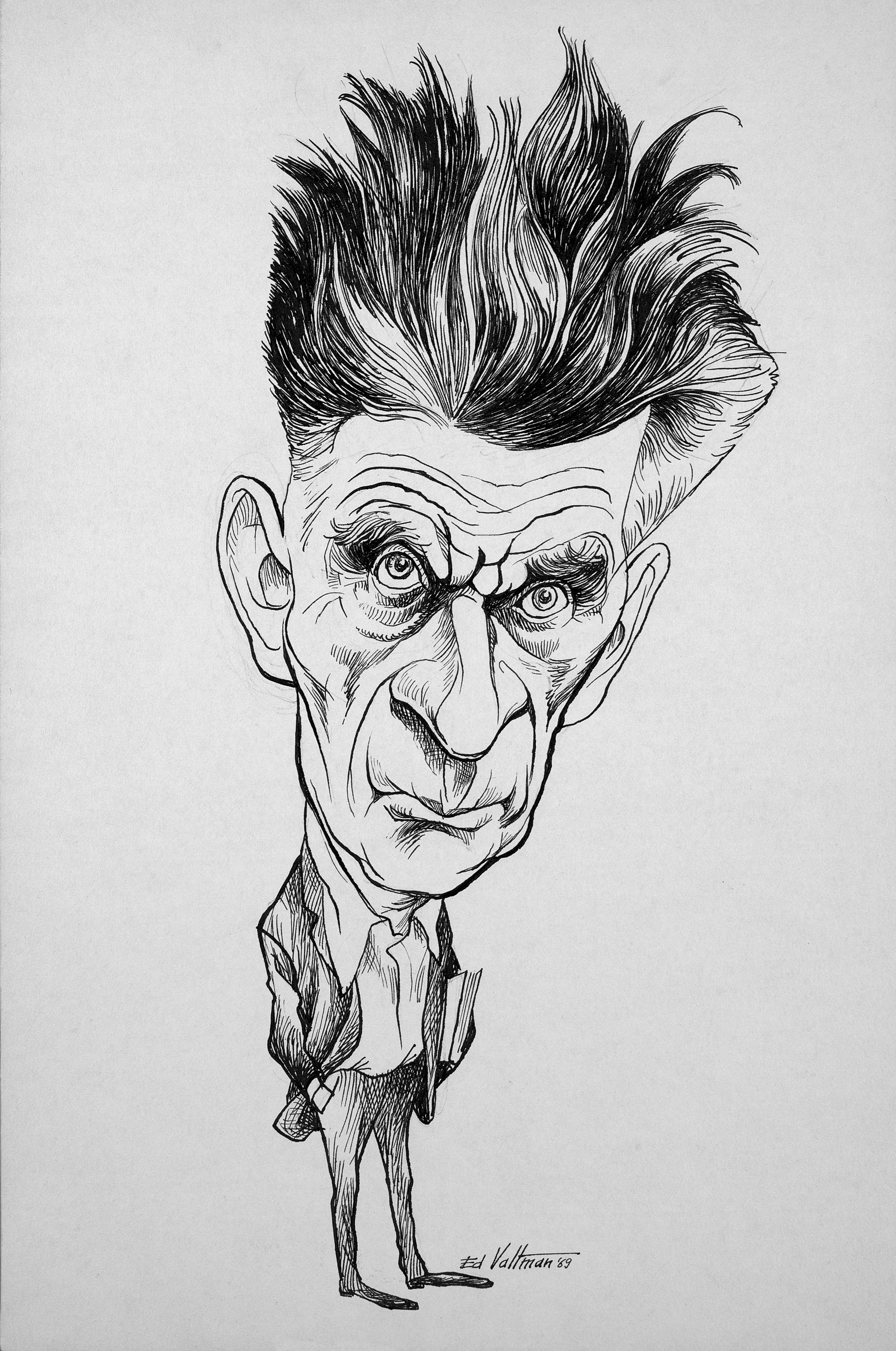 Caricature of Samuel Beckett, Nobel Prize winner and author of the internationally acclaimed play Waiting for Godot, holding a book.